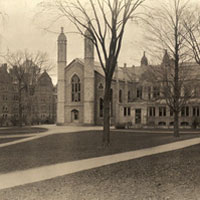 Gore Hall, Harvard Yard.